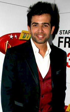 Bhanushali at launch of DID3 (Dance India Dance season 3) a Zee TV reality show